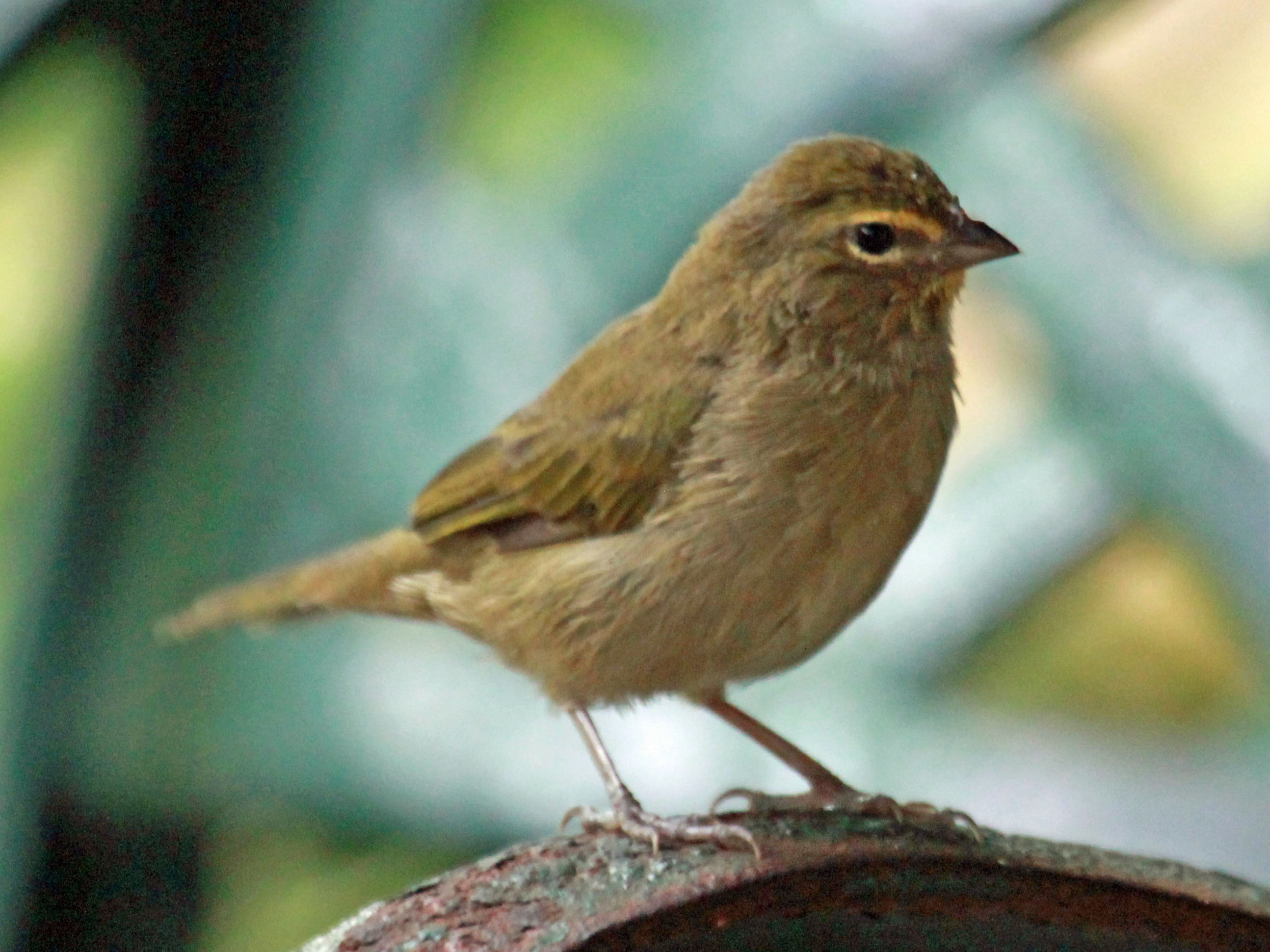 Female Yellow-faced Grasquit (Tiaris olivaceus) - Jamaica